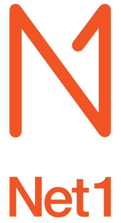 Logotype used by the Net1 companies